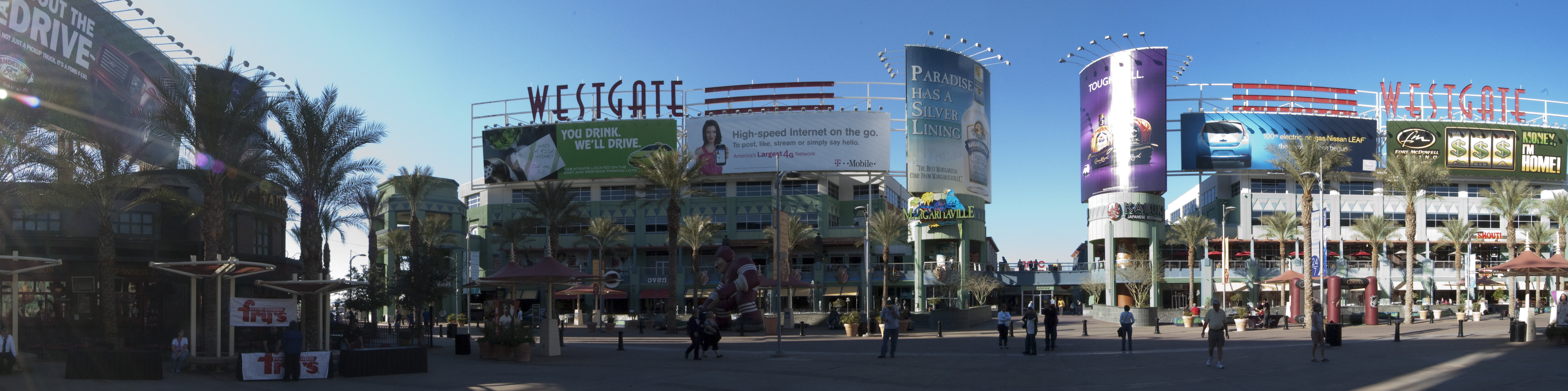 A panoramic view of Westgate City Center from the ground level.